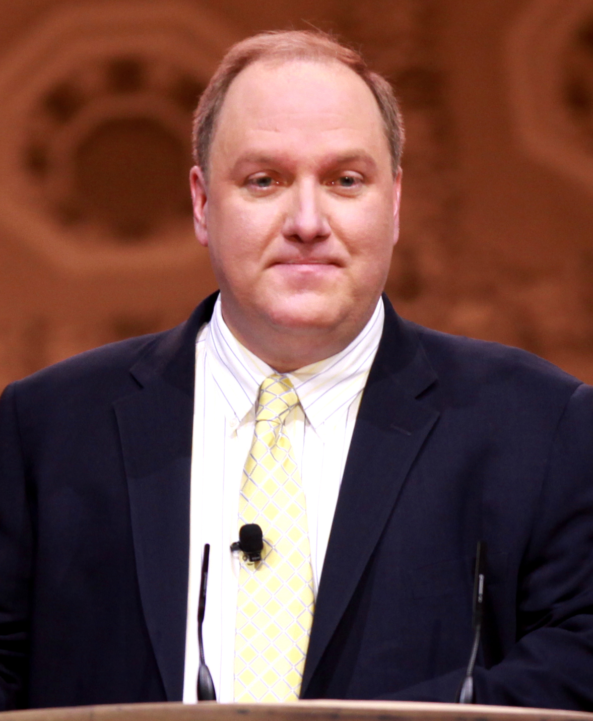 John F. Solomon speaking at the 2014 CPAC in Washington, D.C.